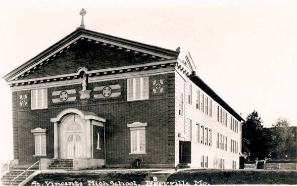 Old St Vincent's High School in Perryville, Missouri. Between 1856 and 1915.